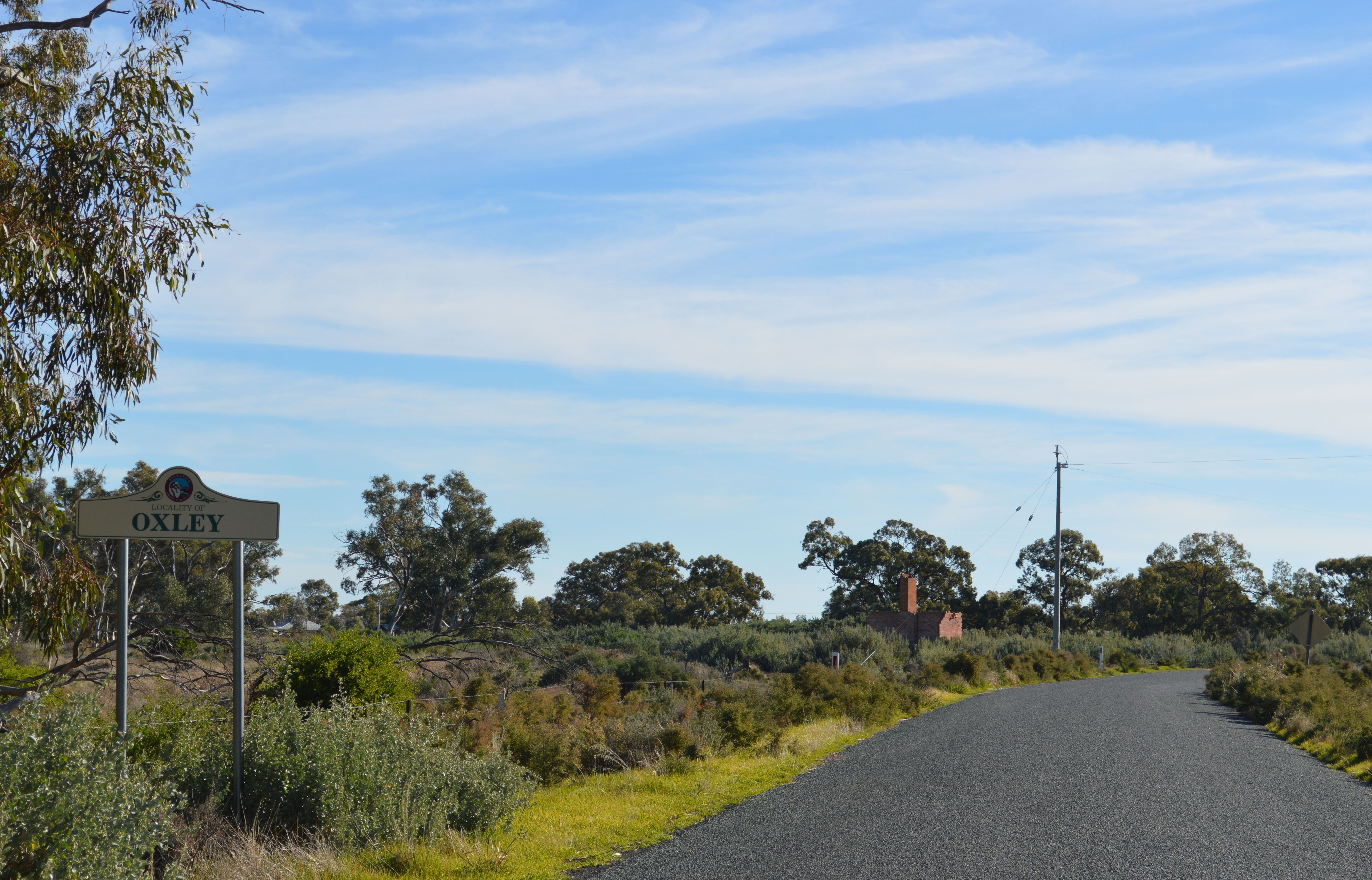 Town entry sign at Oxley, New South Wales